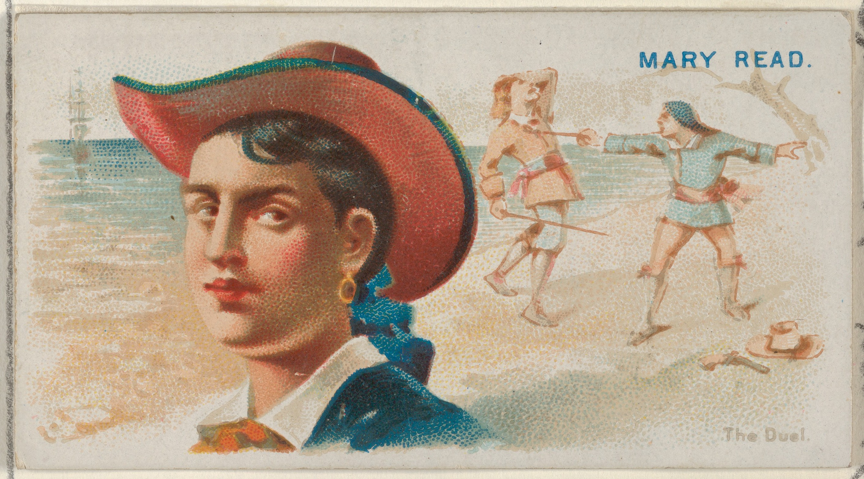 Print; Prints